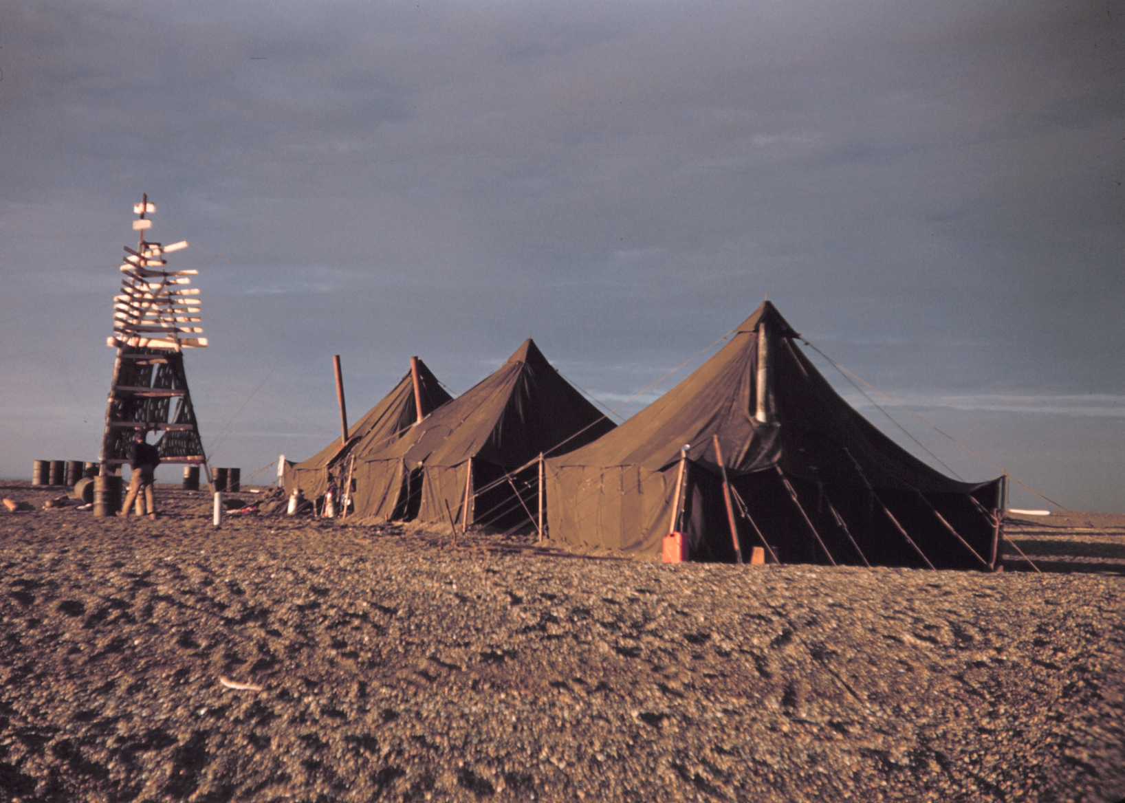 A Shoran navigation shore station and launch shore camp. Alaska, Collinson Point, North Slope.